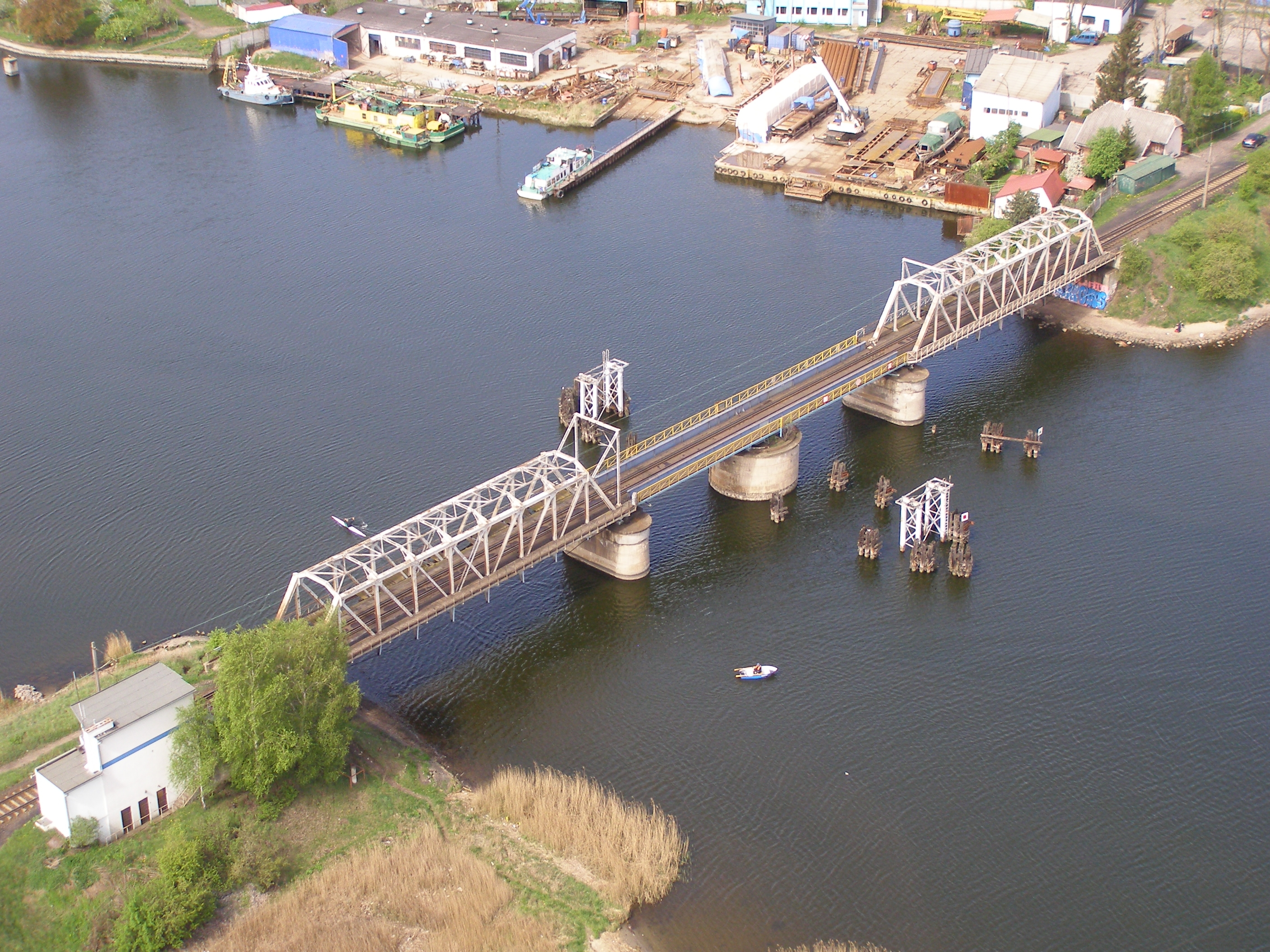 Gdańsk - view from the John Paul II Bridge